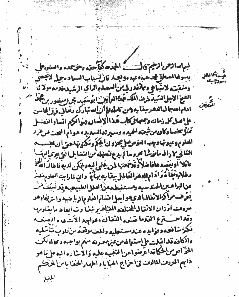 Manuscript - al-Isfizāri